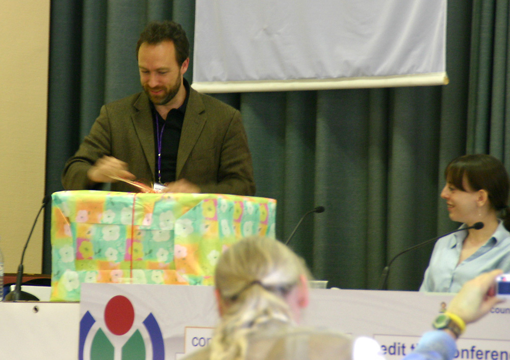 Wikimania conference, Jimbo birthday present